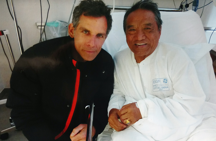 Hollywood Actor Director Ben Stiller seeing Losang Thonden at the Hospital